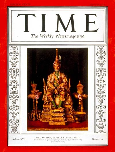 King Prajadhipok on Time magazine cover, 1931.